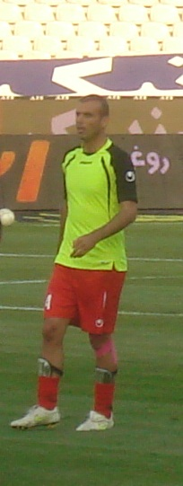 Jalal Hosseini, Persepolis-Malavan match, 2012-13 Iran Pro League